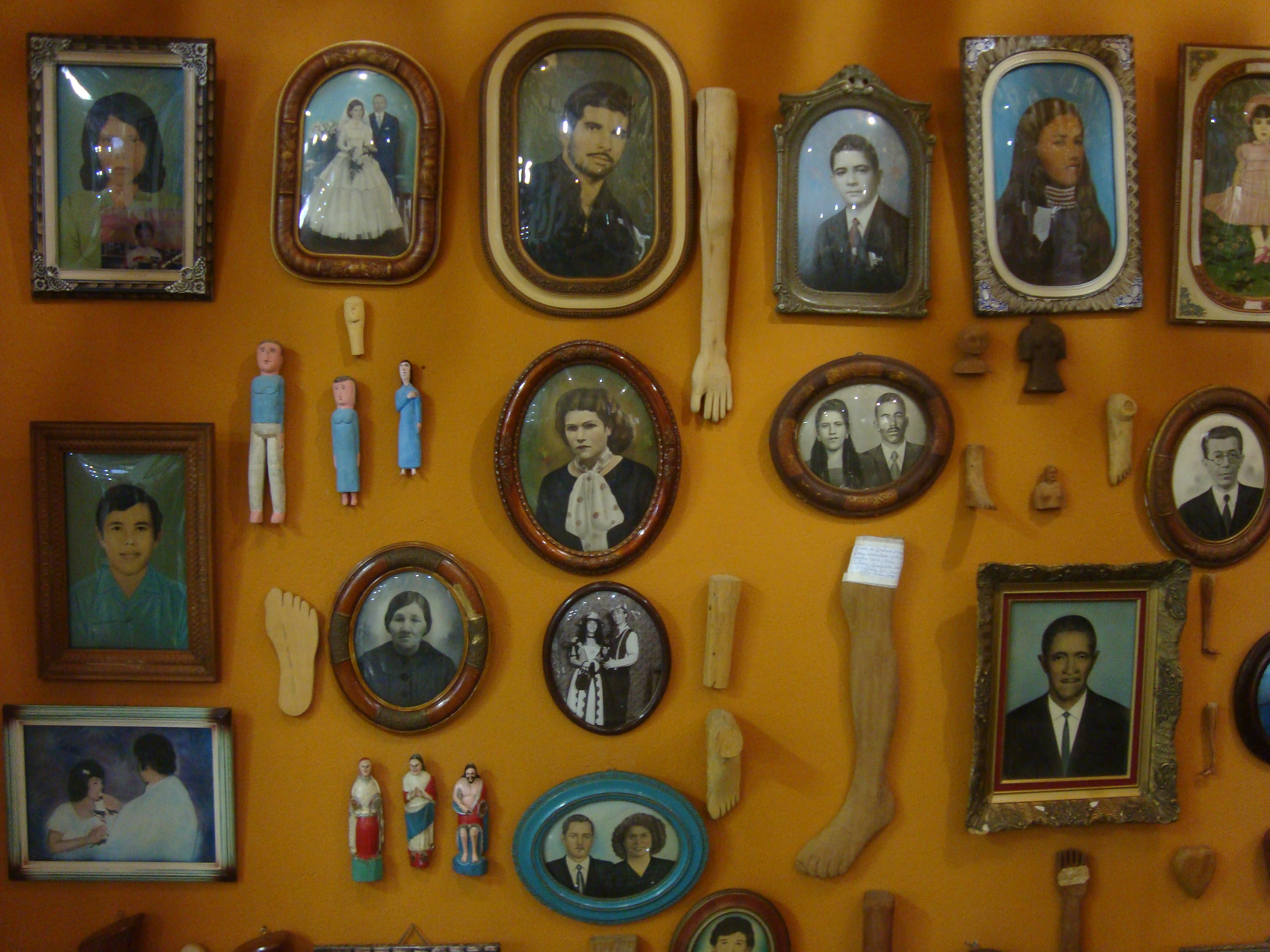 Votive offering in Aparecida, brazilian religious center.